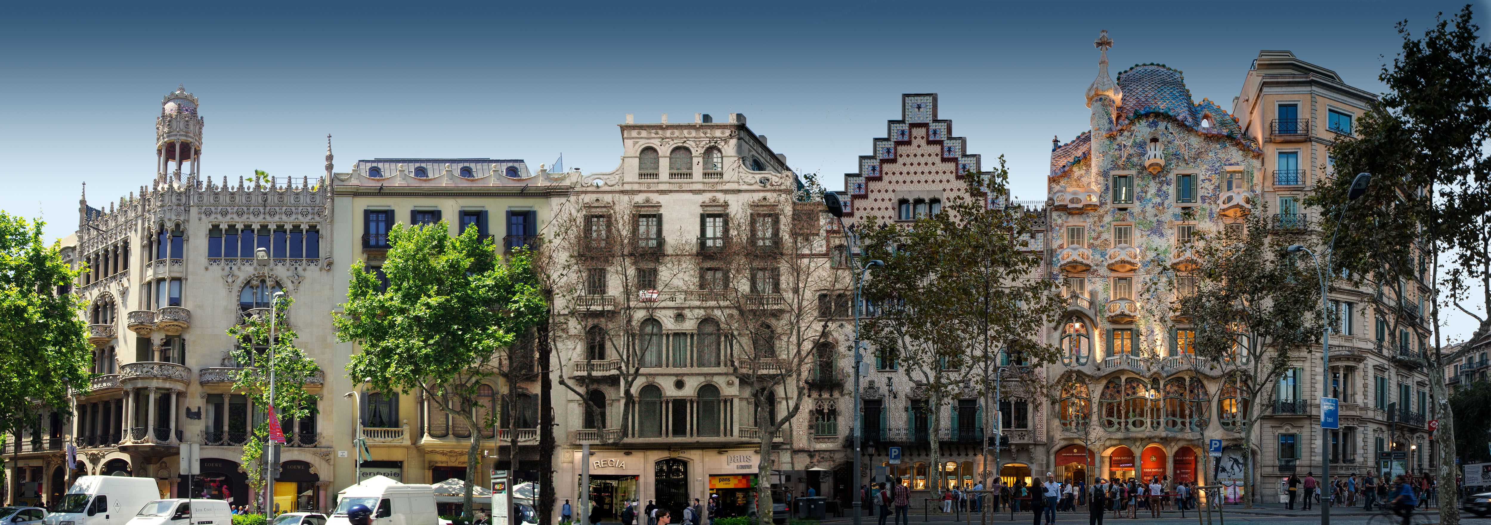 La Illa de la Discòrdia, a row of houses on Passeig de Gràcia in the Eixample district of Barcelona, Spain, consisting of (left → right): Casa Lleó Morera (Lluís Domènech i Montaner, 1905) Casa Mulleras (Enric Sagnier, 1906) Casa Amatller (Josep Puig i Cadafalch, 1900) Casa Batlló (1877, remodelled by Antoni Gaudí, 1906)